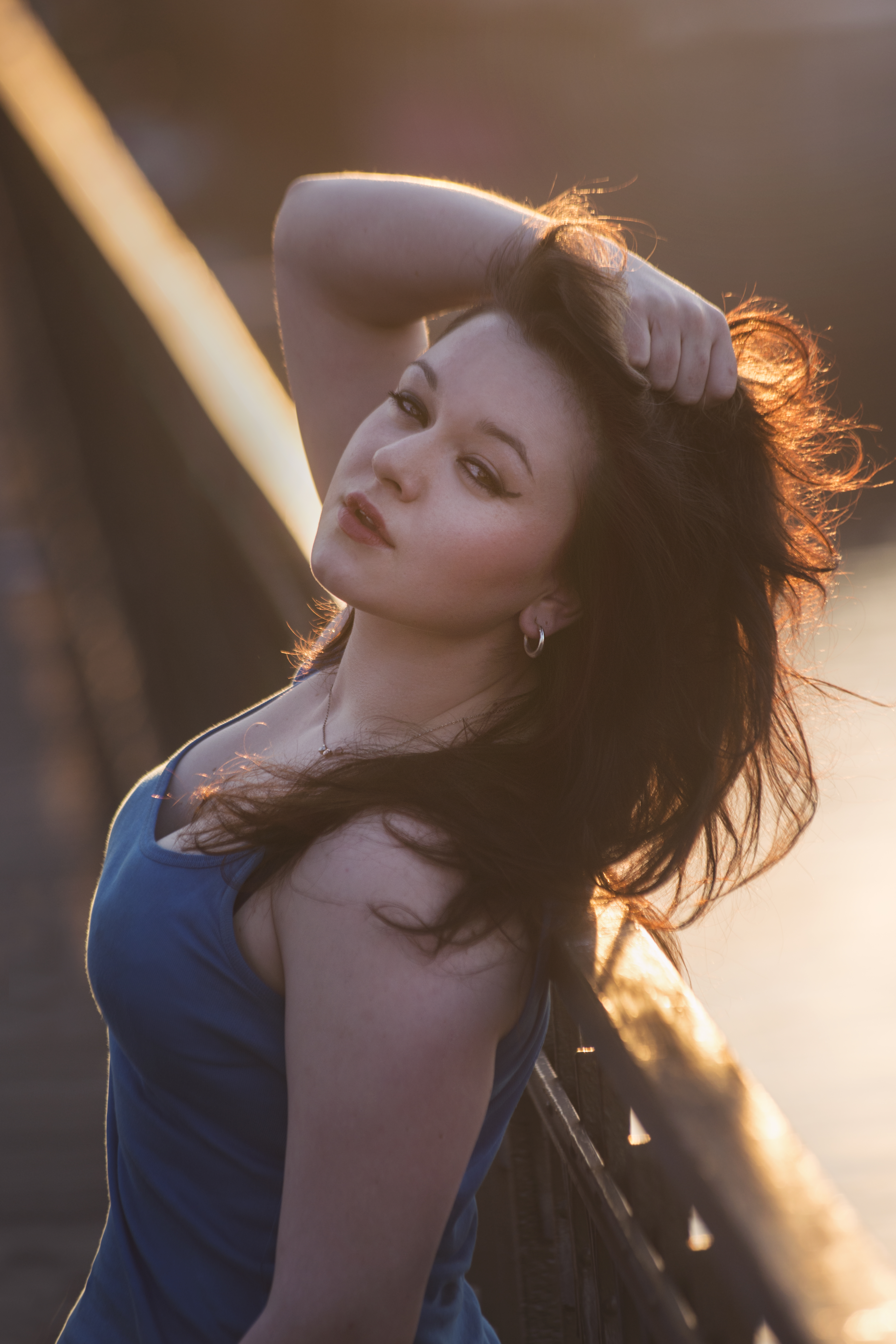 Alžběta